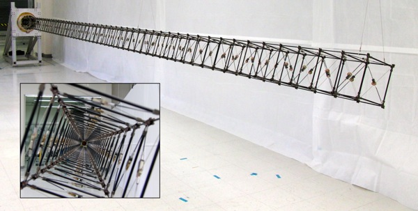 Stowed Mast Essential to the NuSTAR design is a deployable mast which extends to 10 meters (30 feet) after launch. This mast will separate the NuSTAR X-ray optics from the detectors, a necessity to achieve the long focal length required by the optics design. Using a deployable structure allows NuSTAR to launch on a Pegasus XL rocket, one of the smaller launch vehicles available. Previous focusing X-ray missions such as Chandra and XMM-Newton launched fully deployed on larger rockets. This extendable mast is being built by ATK Goleta, which specialize in space-based deployable structures. They have built structures that have flown on the International Space Station, on Mars landers, and a mast similar in design albeit much larger in scale that flew on the Space Shuttle Endeavor in February 2000. The NuSTAR flight mast has been built and is currently undergoing testing at ATK Goleta. This image is from a full deployment test in August 2009.